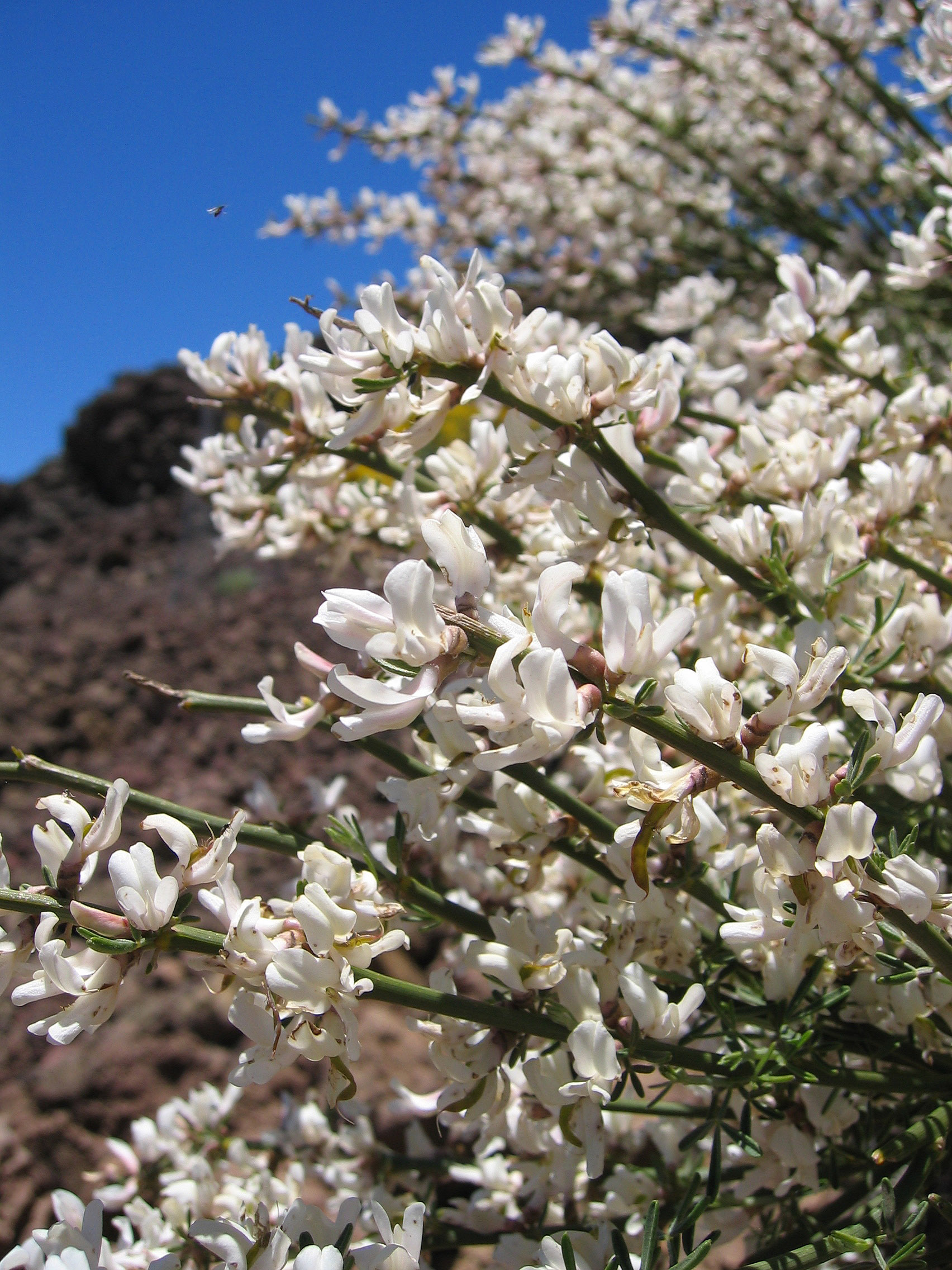 Spartocytisus supranubius, Roque de los Muchachos, La Palma